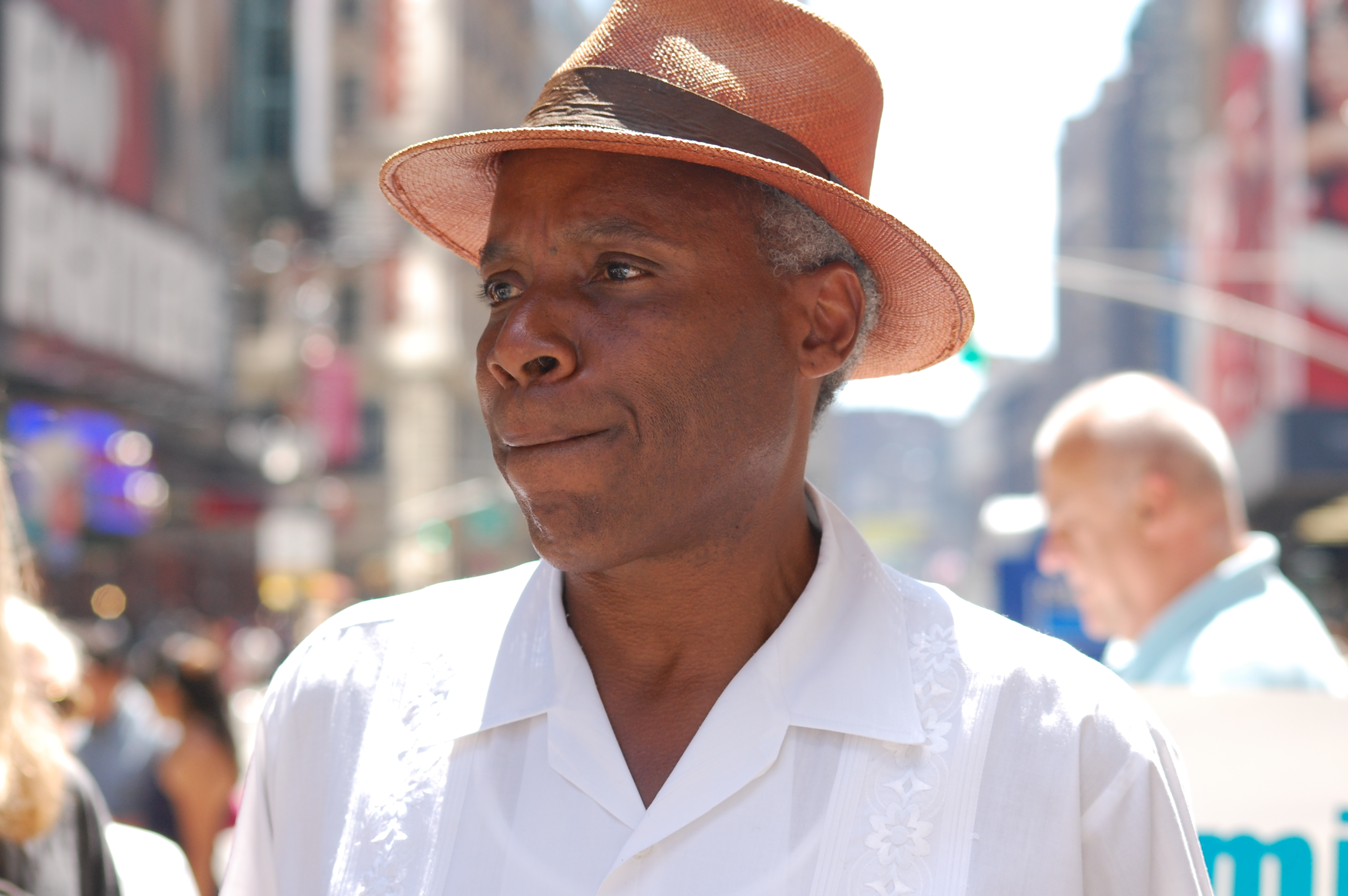 New York State Senator Bill Perkins (D, Manhattan) speaking at a press conference at Times Square.